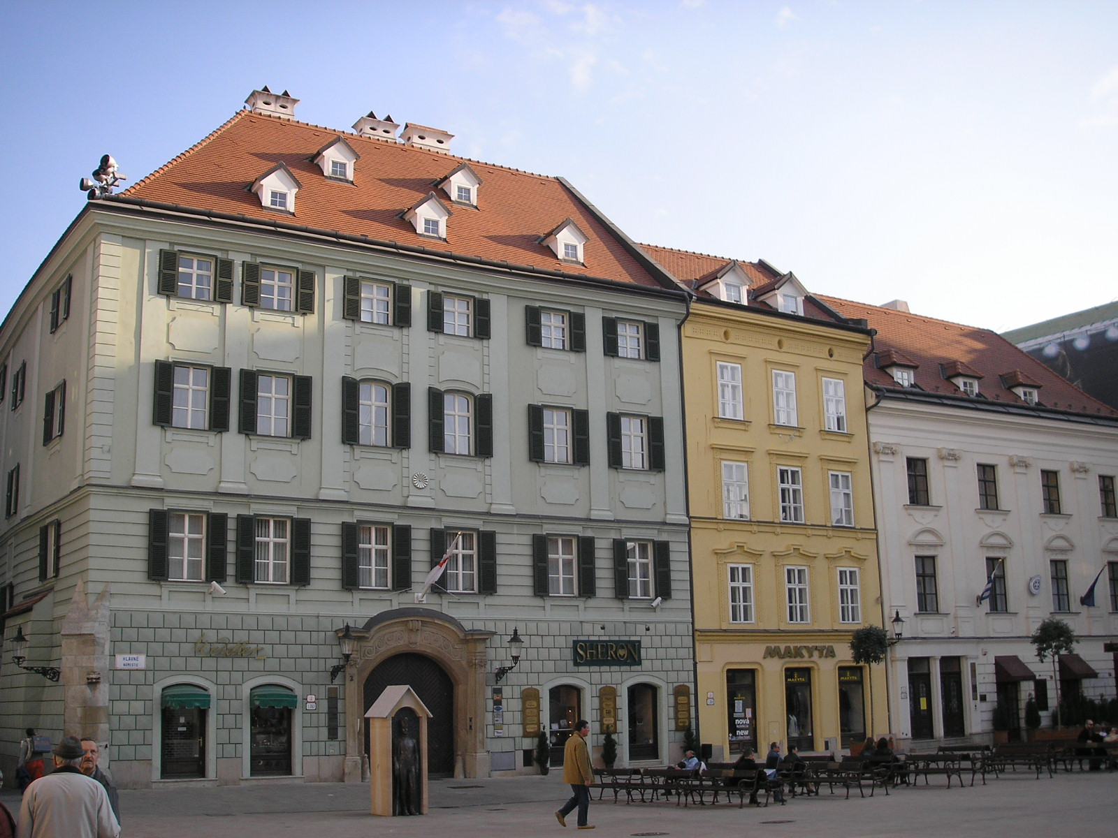 Image of the Japanese Embassy in Bratislava, on the Old Town Square.